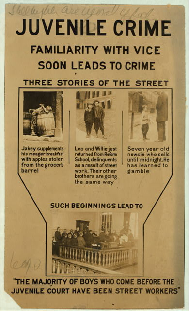 Title: Exhibit panel Creator(s): Hine, Lewis Wickes, 1874-1940, photographer Date Created/Published: [1913 or 1914?] Medium: 1 photographic print. 1 negative : glass ; 5 x 7 in. Reproduction Number: LC-DIG-nclc-04935 (color digital file from b&w original print) LC-DIG-nclc-05556 (b&w digital file from original glass negative) Rights Advisory: No known restrictions on publication. Call Number: LOT 7483, v. 2, no. 3754 [P&P] LC-H5- 3754 Repository: Library of Congress Prints and Photographs Division Washington, D.C. 20540 USA Notes: Title from NCLC caption card. Attribution to Hine based on provenance. In album: Miscellaneous. Hine no. 3754. Photo Credit: Library of Congress, LC-DIG-nclc-04935